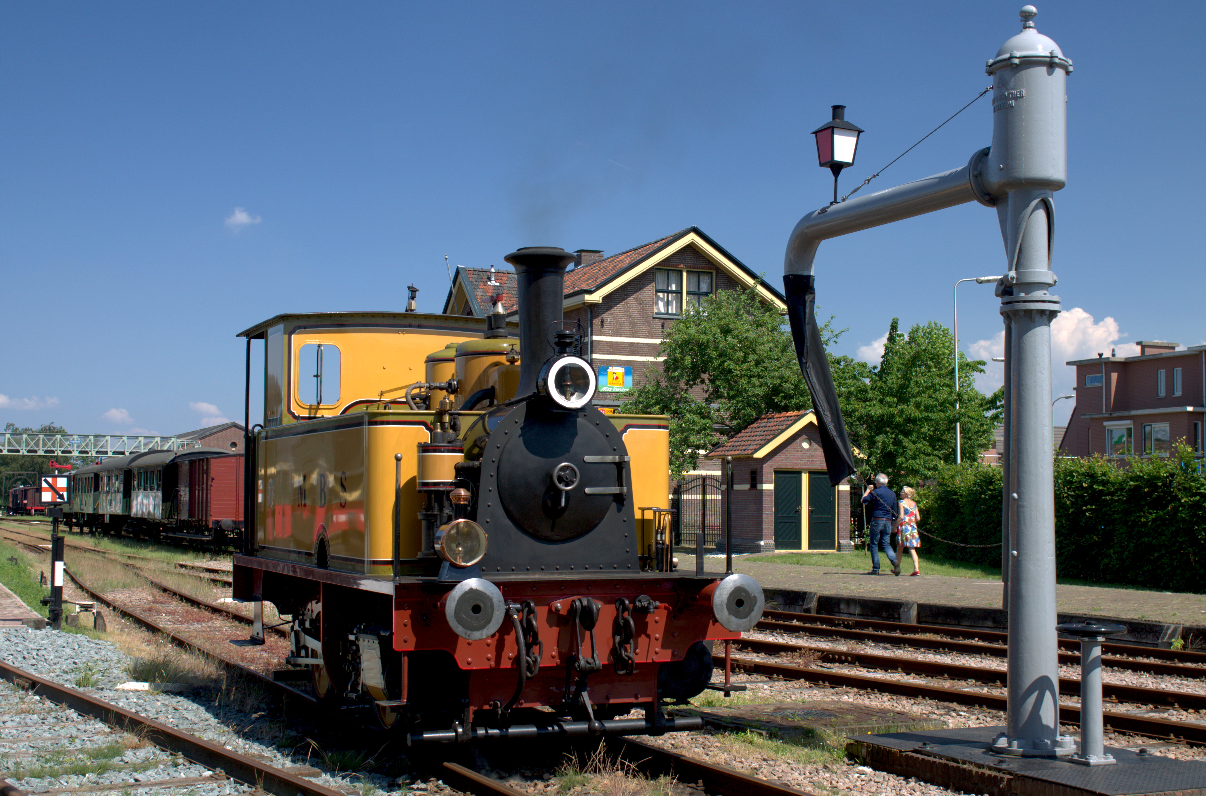 Steam locomotive #6 "Magda" (built in 1925 by La Meuse) during water replenishment in Haaksbergen station (Overijssel, Netherlands). On the right, the water crane is visible, and the station building can be seen in the background.